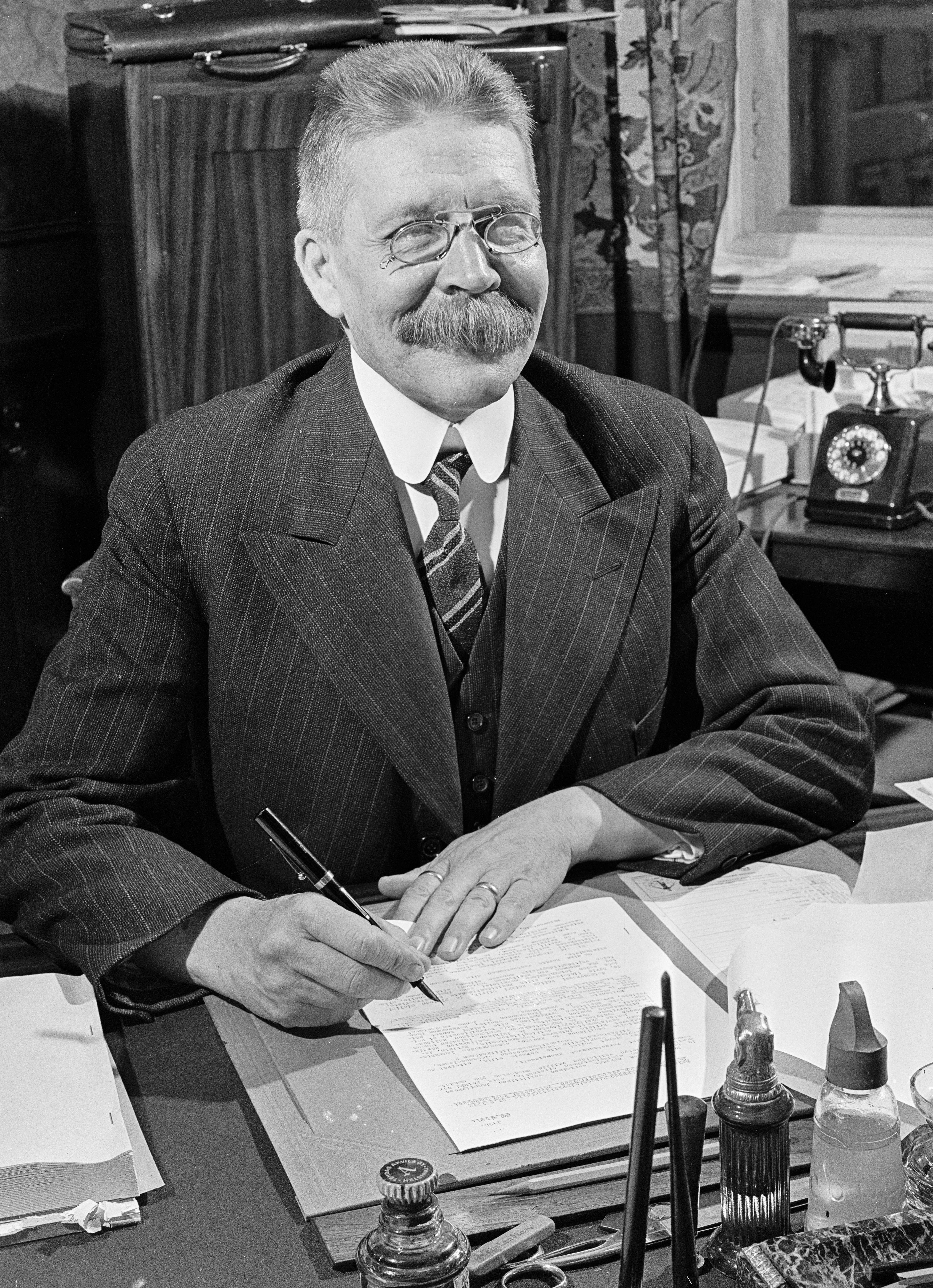 Finnish Prime Minister A.K. Cajander, 1939 Аҧсшәа: Pääministeri A.K.Cajander 1939.